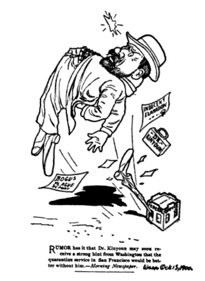 Political cartoon showing Dr. Kinyoun being kicked out of Federal offices. The cartoon depicted a fictional occurrence; Kinyoun was reviled by business and political leaders of San Francisco for his work to uncover a plague epidemic in 1900, but he was not dismissed his post.